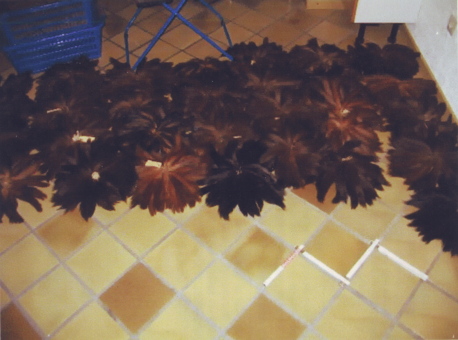 Rolled squirrel tails